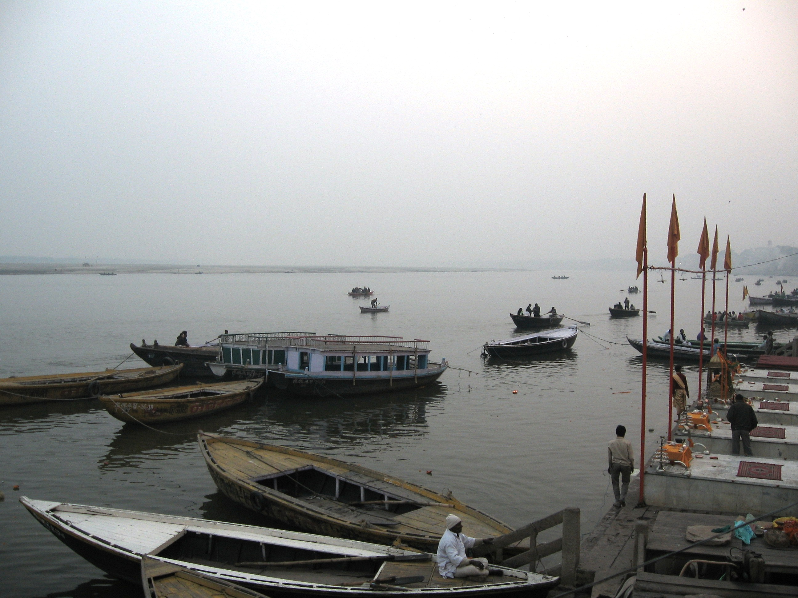 Varanasi Ghat at dusk